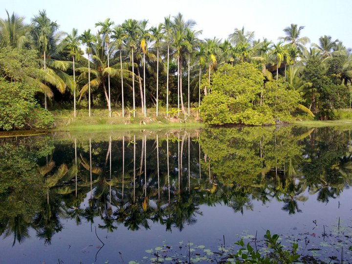 green area in sarel